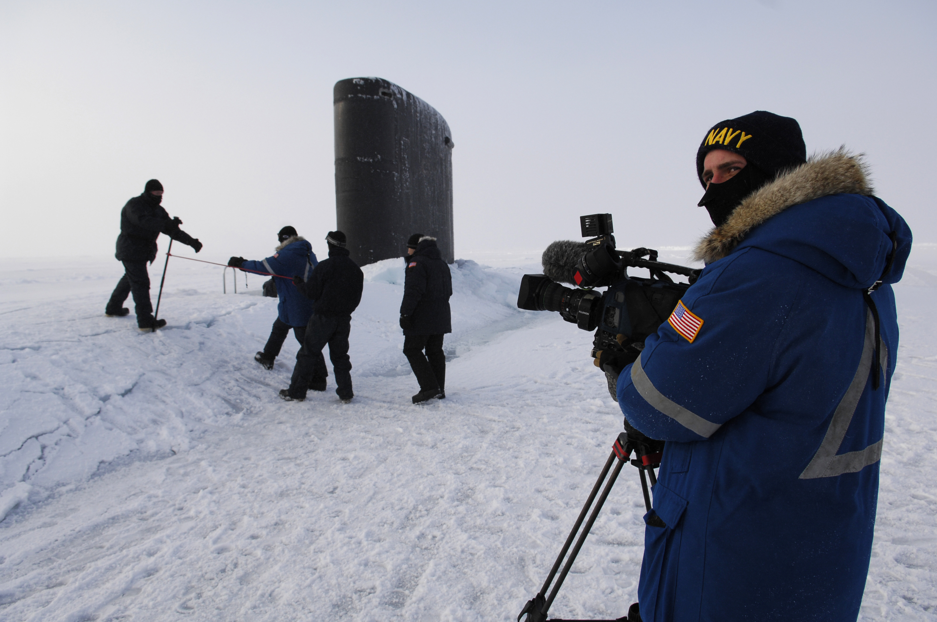 ARCTIC OCEAN (March 17, 2007) - Mass Communication Specialist 2nd Class Andrew Krauss waits for the Secretary of the Navy (SECNAV), the Honorable Dr. Donald C. Winter to land and then board USS Alexandria (SSN 757) during ICEX-07. The U.S. Navy and Royal Navy are conducting ICEX-07 on and under a drifting ice floe about 180 nautical miles off the north coast of Alaska. U.S. Navy photo by Chief Mass Communication Specialist Shawn P. Eklund (RELEASED)